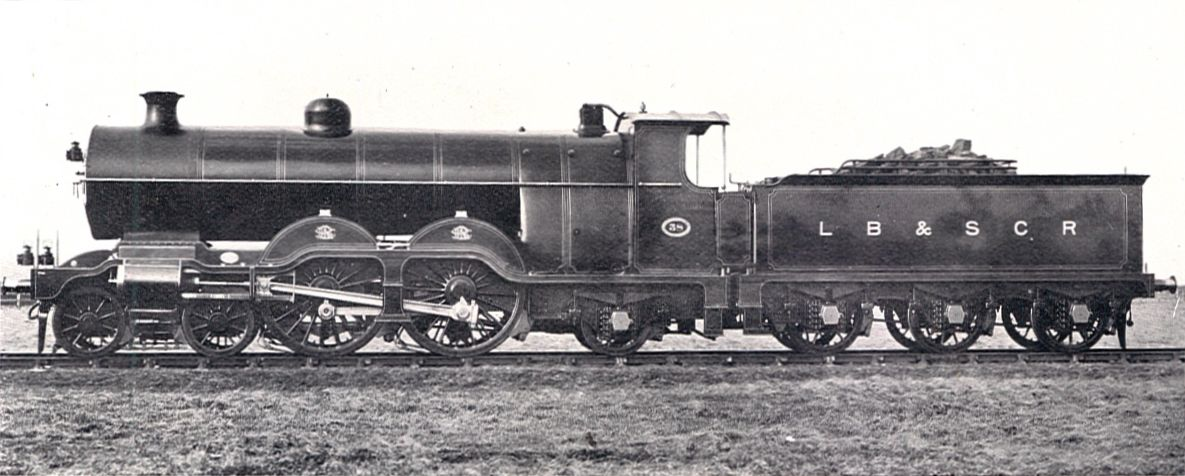 London, Brighton & South Coast Railway, The Newest British 'Atlantic' LB&SCR H1 class 4-4-2 locomotive, 38 Portland Bill